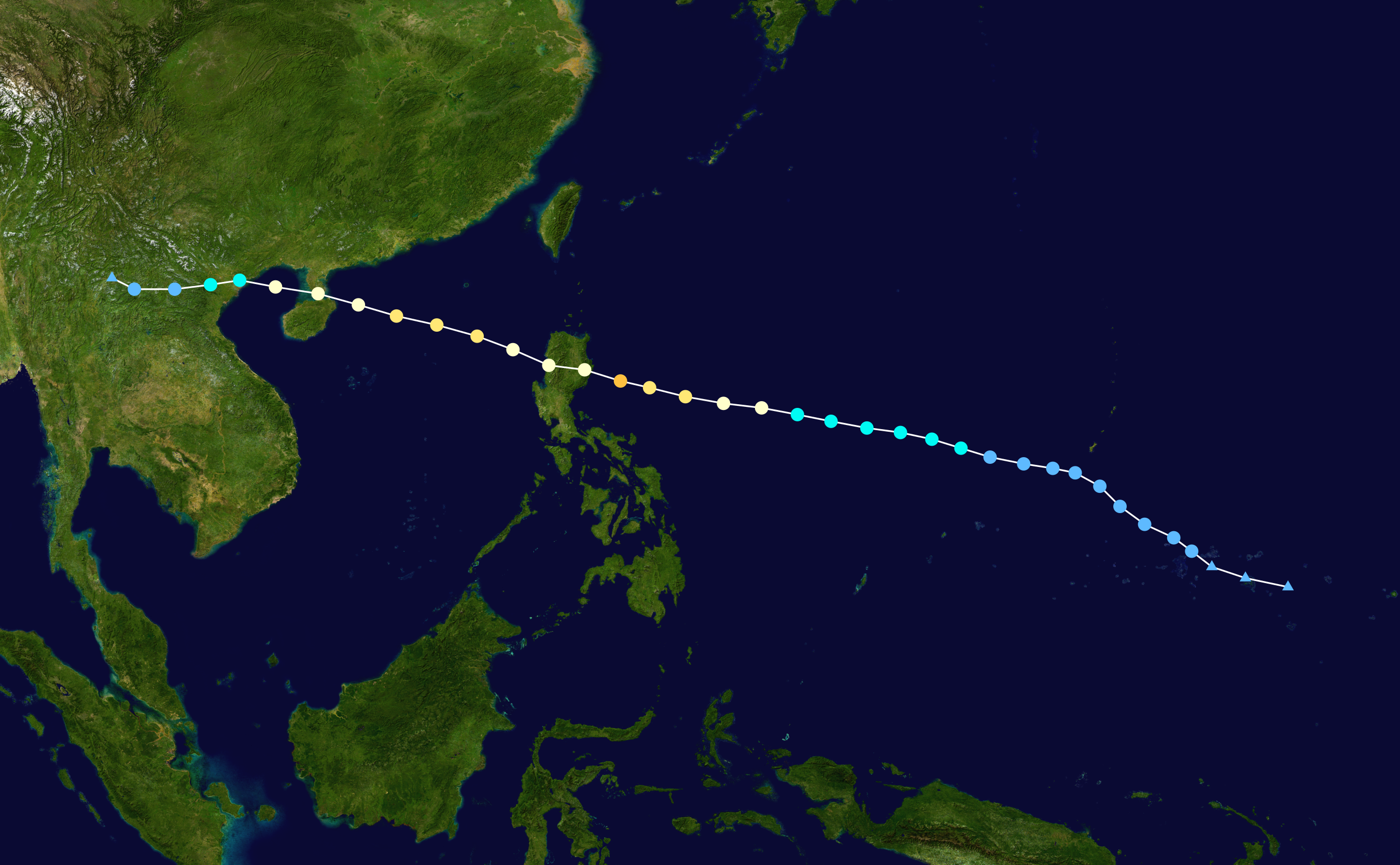 Typhoon Joe 1980 track. Uses the color scheme from the Saffir-Simpson Hurricane Scale.